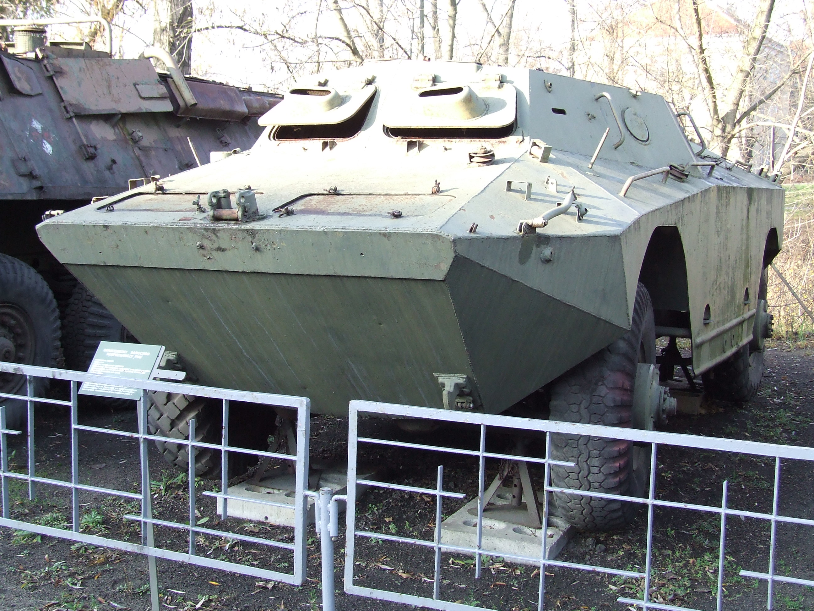 FUG D-442 Armoured Scout Car